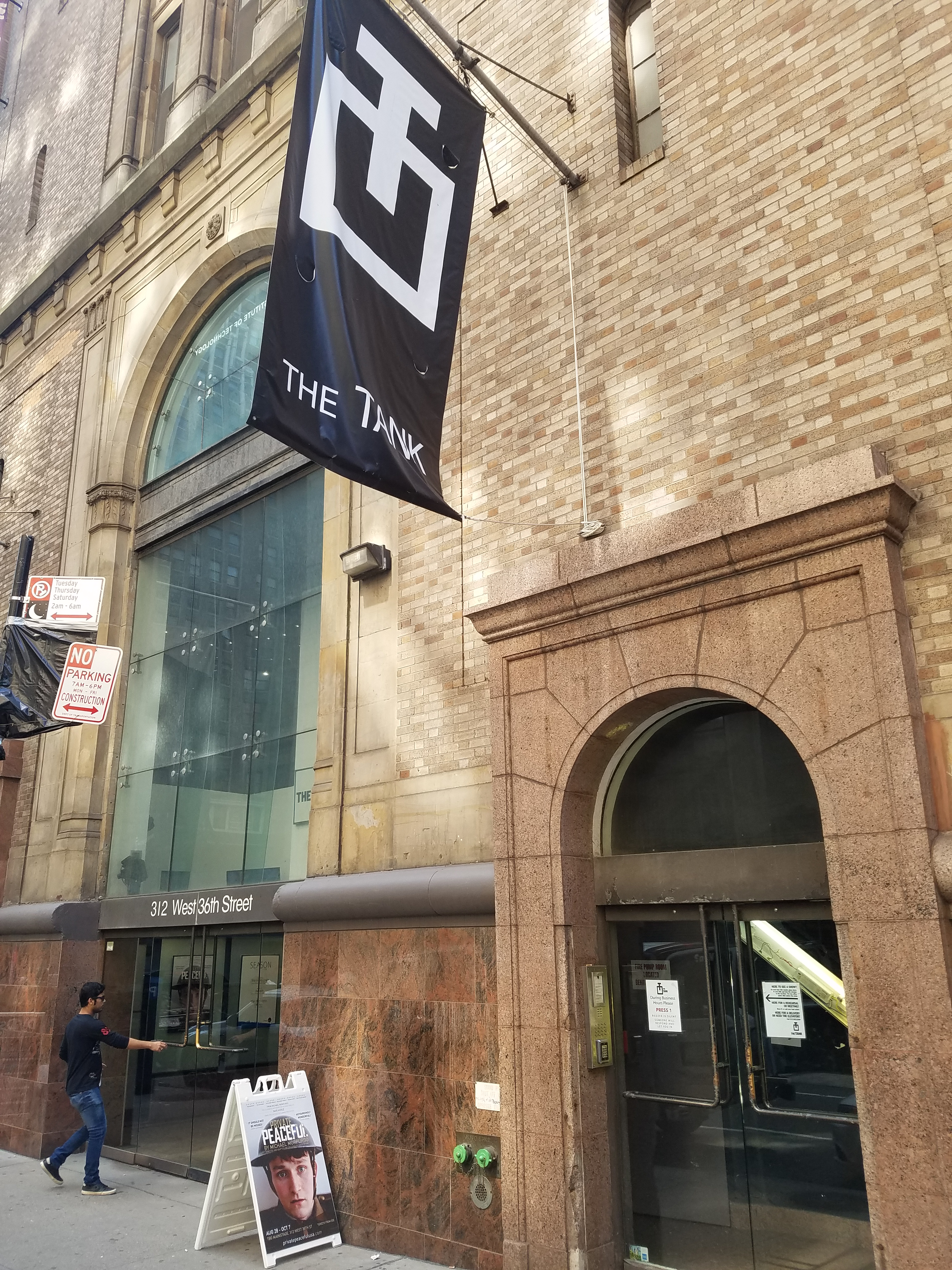 Exterior of the Off-Off-Broadway theater The Tank, looking south from across 36th Street.